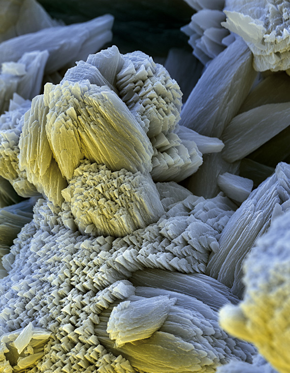 Crystals of calcium carbonate seen through an electron miscroscope